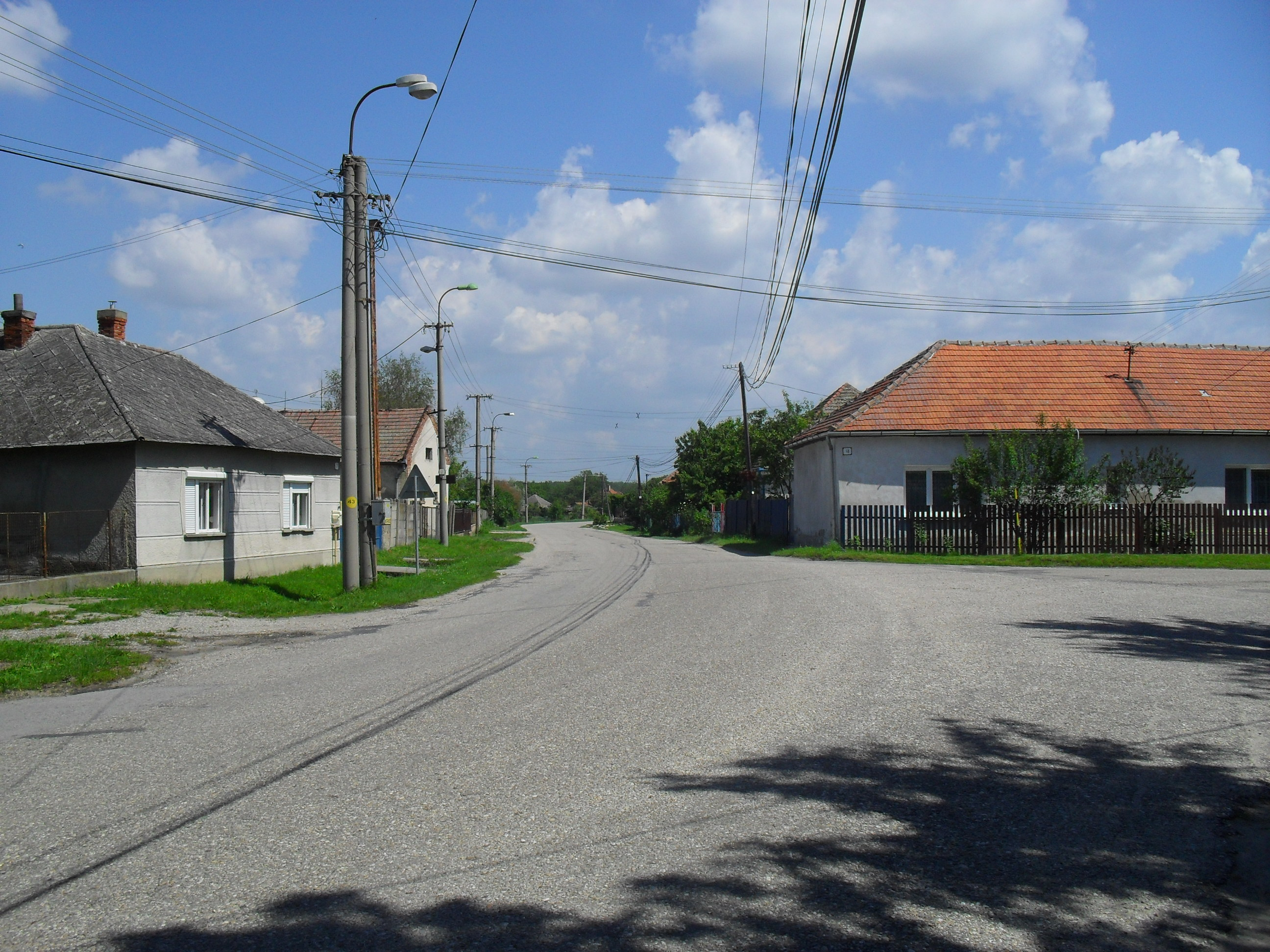 Čalovec - street view